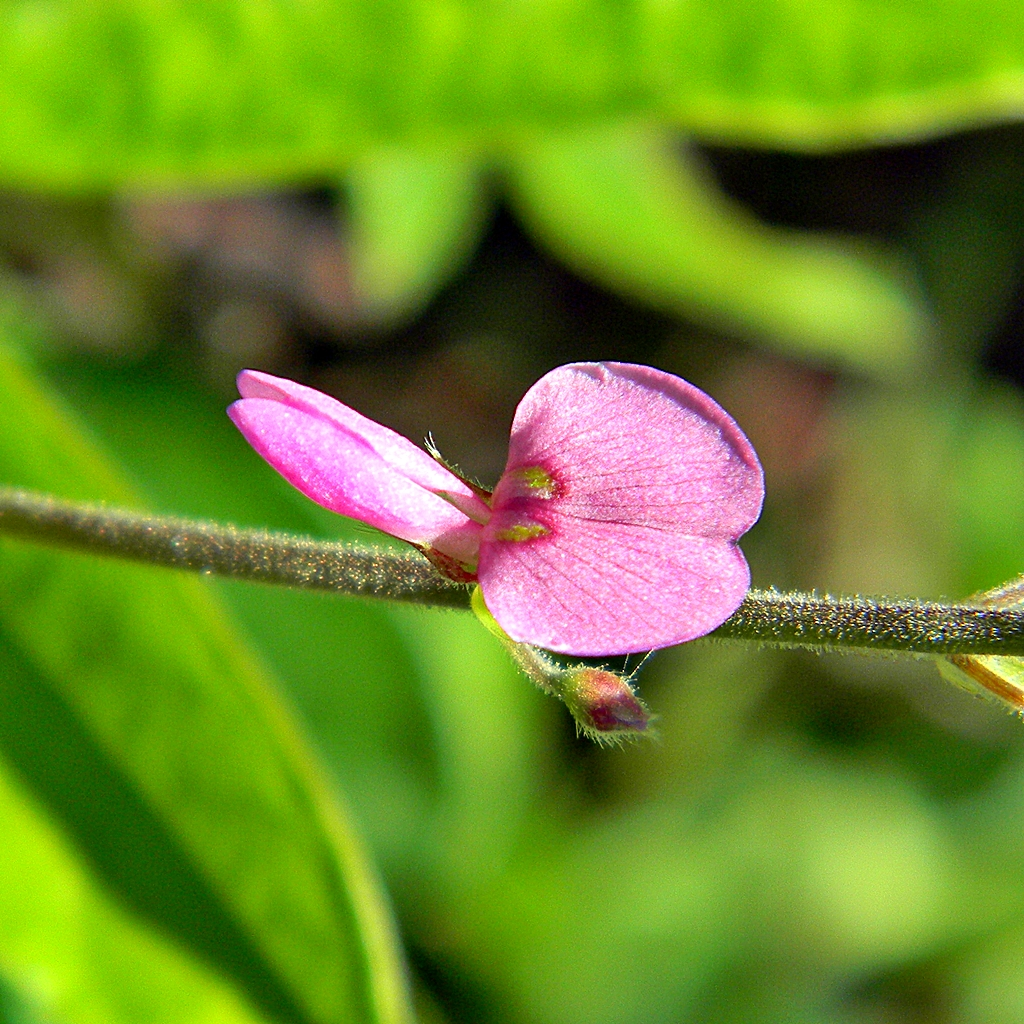 Beggar's-ticks (Desmodium incanum). The tiny blossoms are lovely. The well-known seed pods stick to clothing and fur like Velcro but they are soft, fuzzy benign things and do not hurt. Contrary to popular belief, their natural habitat is not actually socks and shoestrings! This one is non-native. Sweetbay Natural Area.